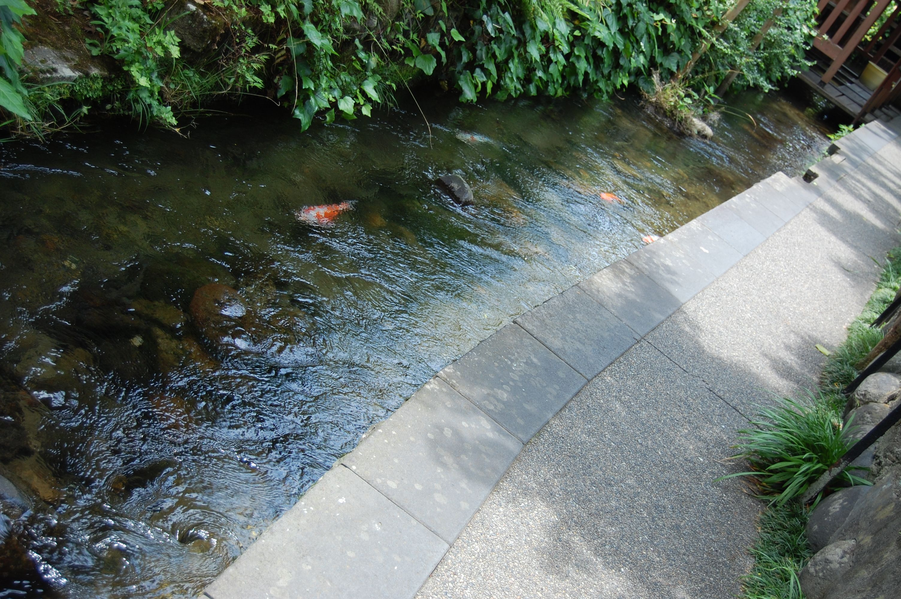 IGAWA KOMICHI